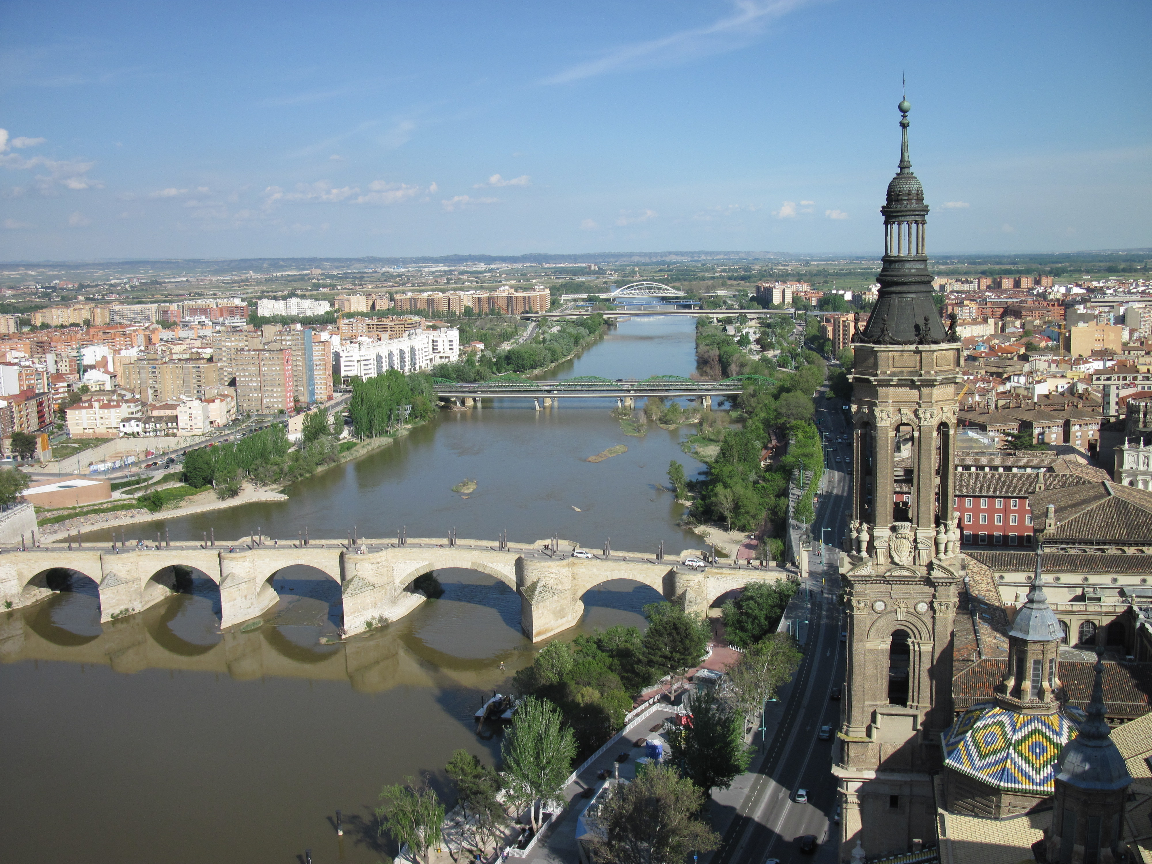 Basílica of Pilar, river Ebro, bridge Pjedro